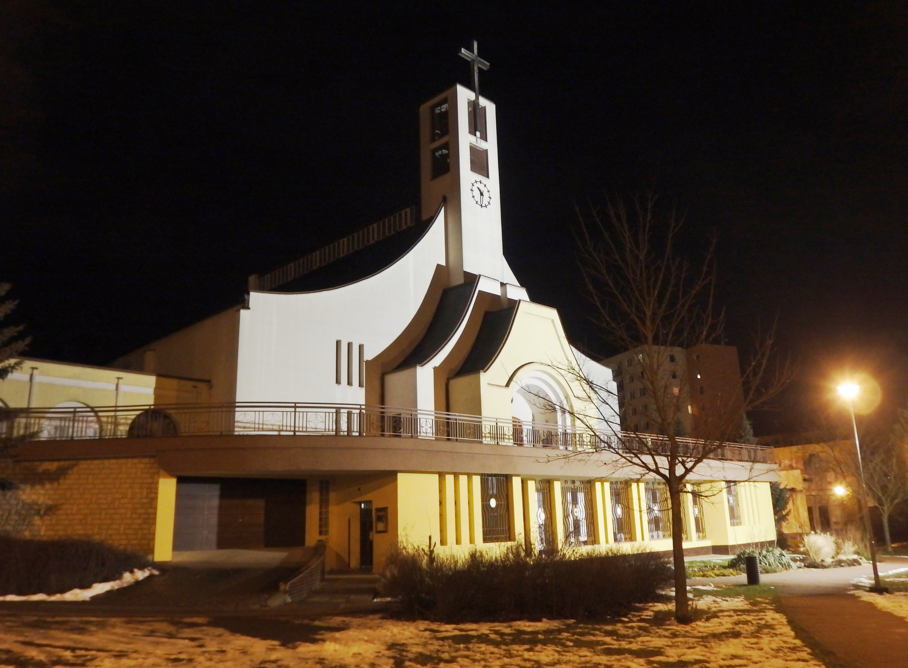 Otrokovice in Zlín District, Czech Republic. Church of St. Adalbert.